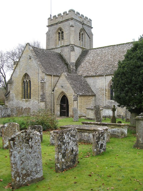 Porch, central tower and north transept of St Kenelm's parish church and Churchyard, Minster Lovell, Oxfordshire